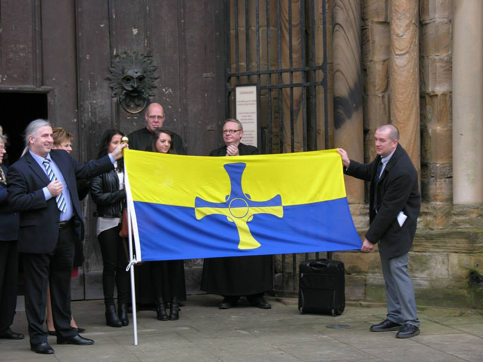 James Moffat right and his daughters Katie (left) and Holly (right) behind the flag, with Andy Strangeway at left.